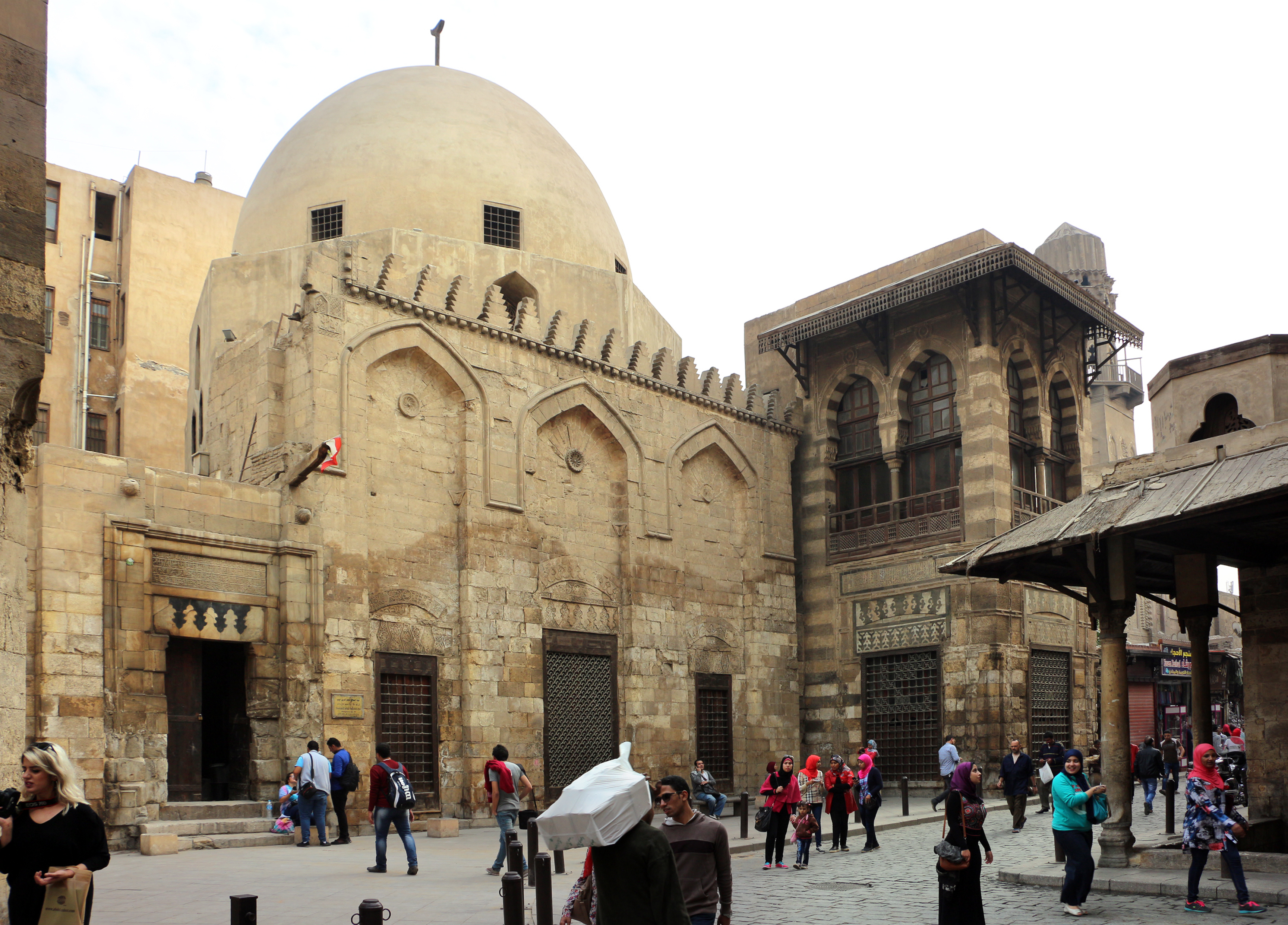 Madrasah Al Zazer